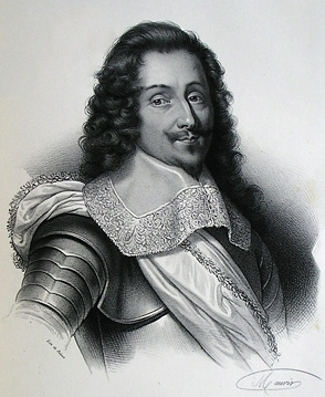 Claude Favre de Vaugelas (1585-1650)